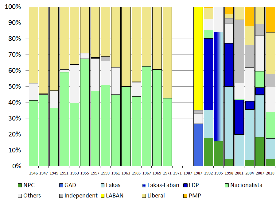 Proportion of votes in the Philippine senatorial elections.